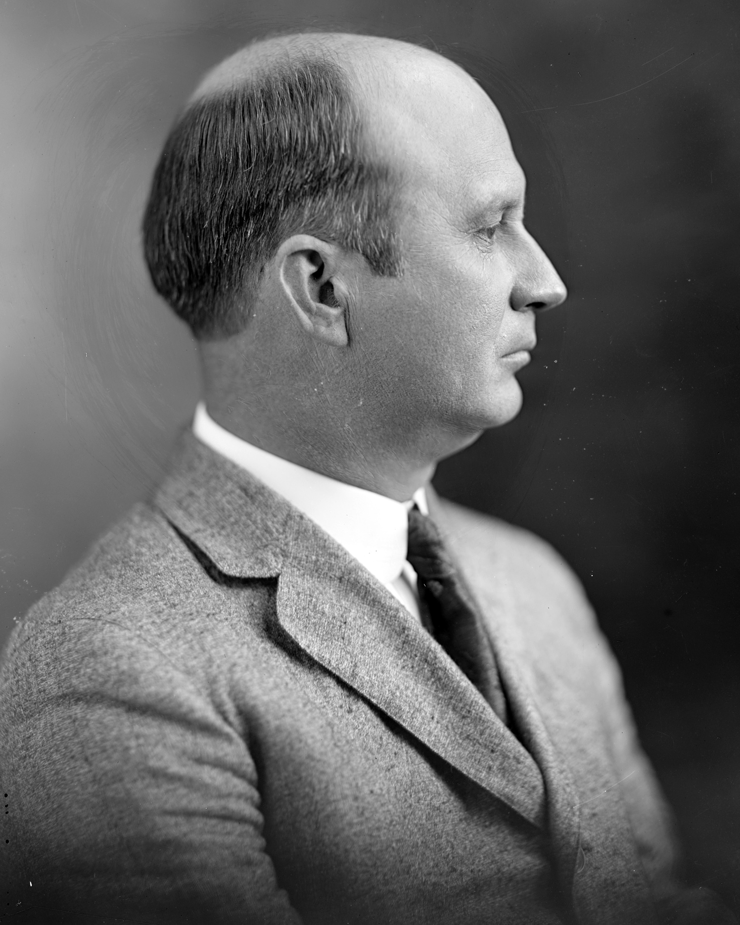 William Chester Lankford, US Representative from Georgia